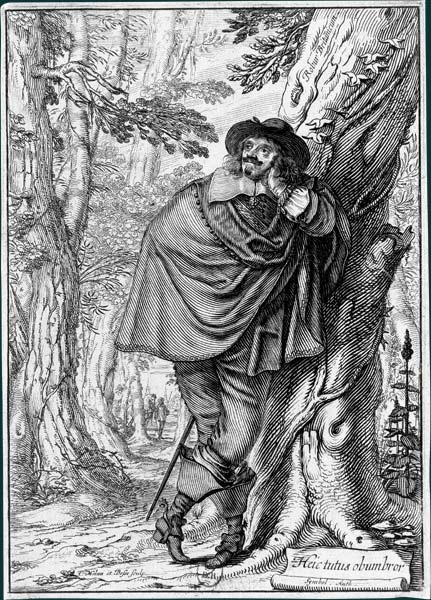 1641 portrait of James Howell (c. 1594-1666), Frontispice of Howell's "Dodona's Grove" or "Dendrologie, ou la Forest de Dodonne", Paris, 1641, 210 x 146 mm., engraving by Abraham Bosse (c1602-1676) after Claude Mellan (1598-1688). Abraham Bosse (c1602-1676), Claude Mellan (1598-1688